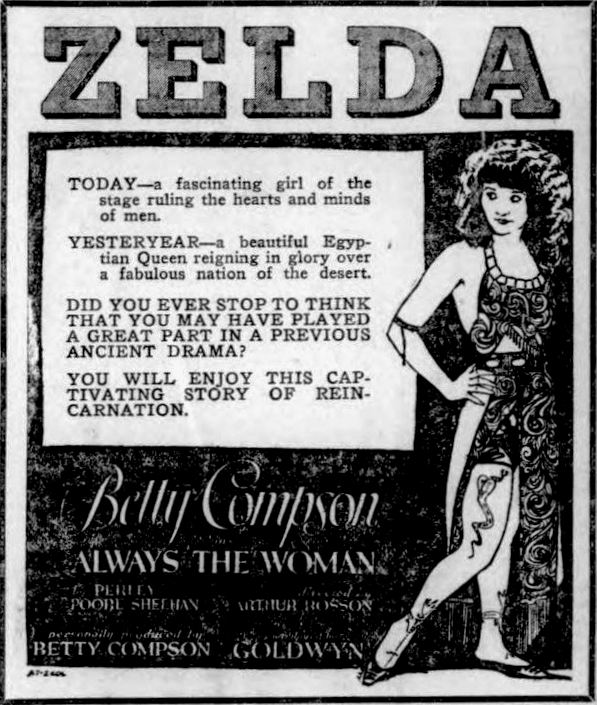 Newspaper advertisement for the American film Always the Woman (1922) with Betty Compson, on page 5 of the September 2, 1922 Duluth Herald.